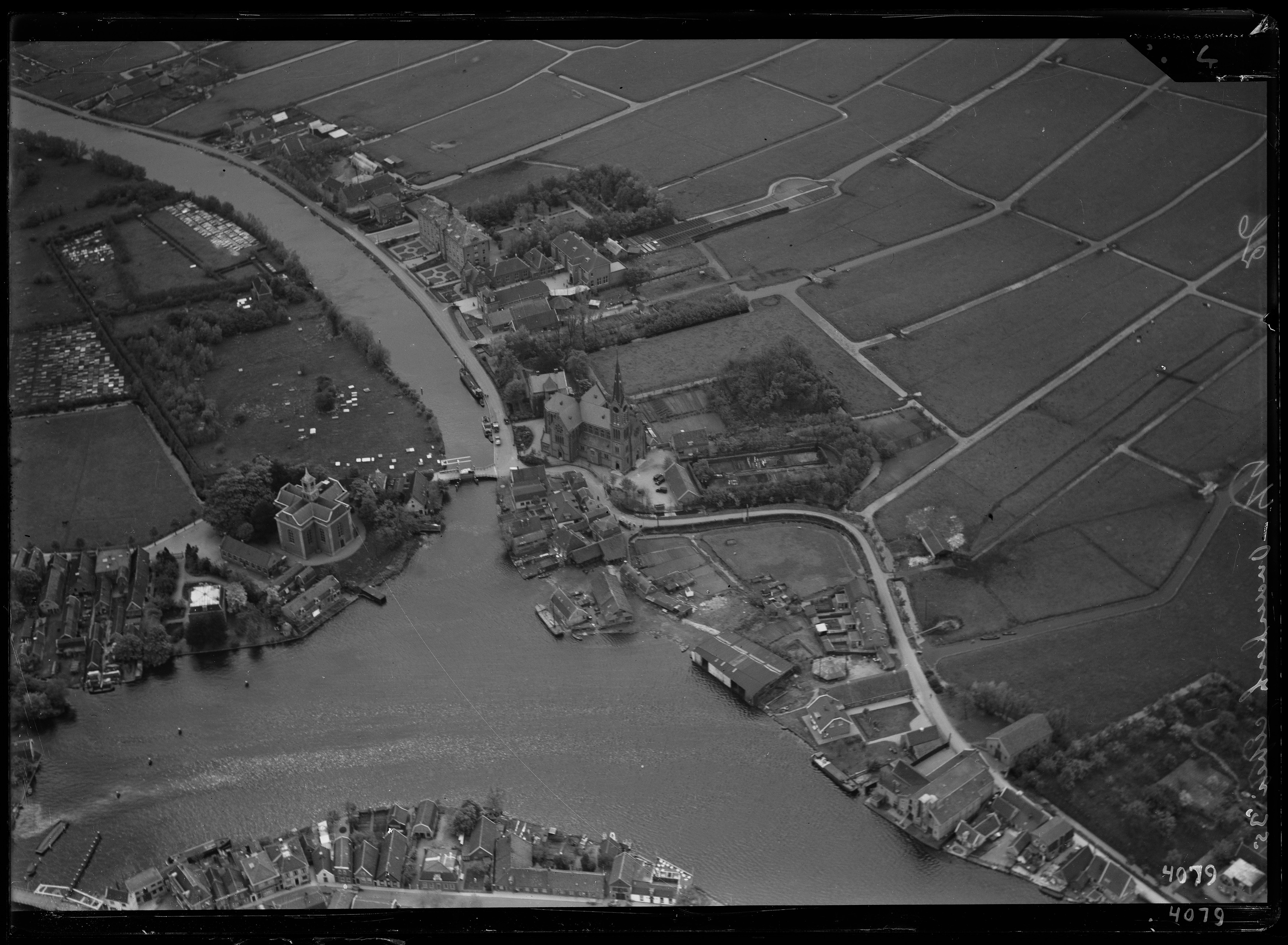 Aerial photograph of Ouderkerk aan de Amstel, The Netherlands